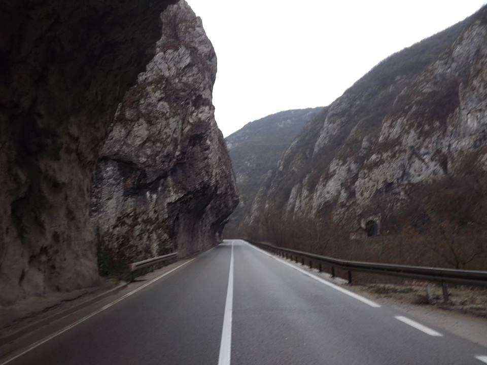 Sićevo Gorge